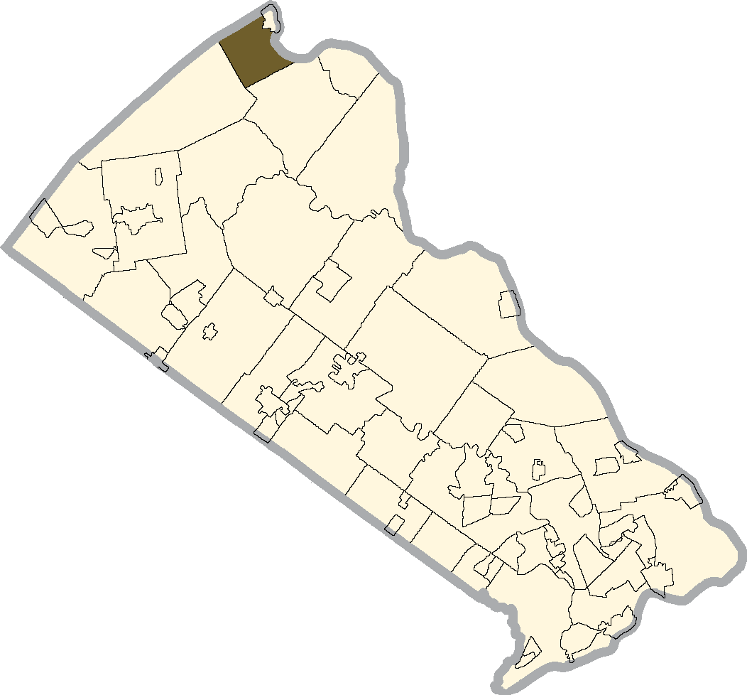 Durham Township shaded on the map of Bucks county, PA.